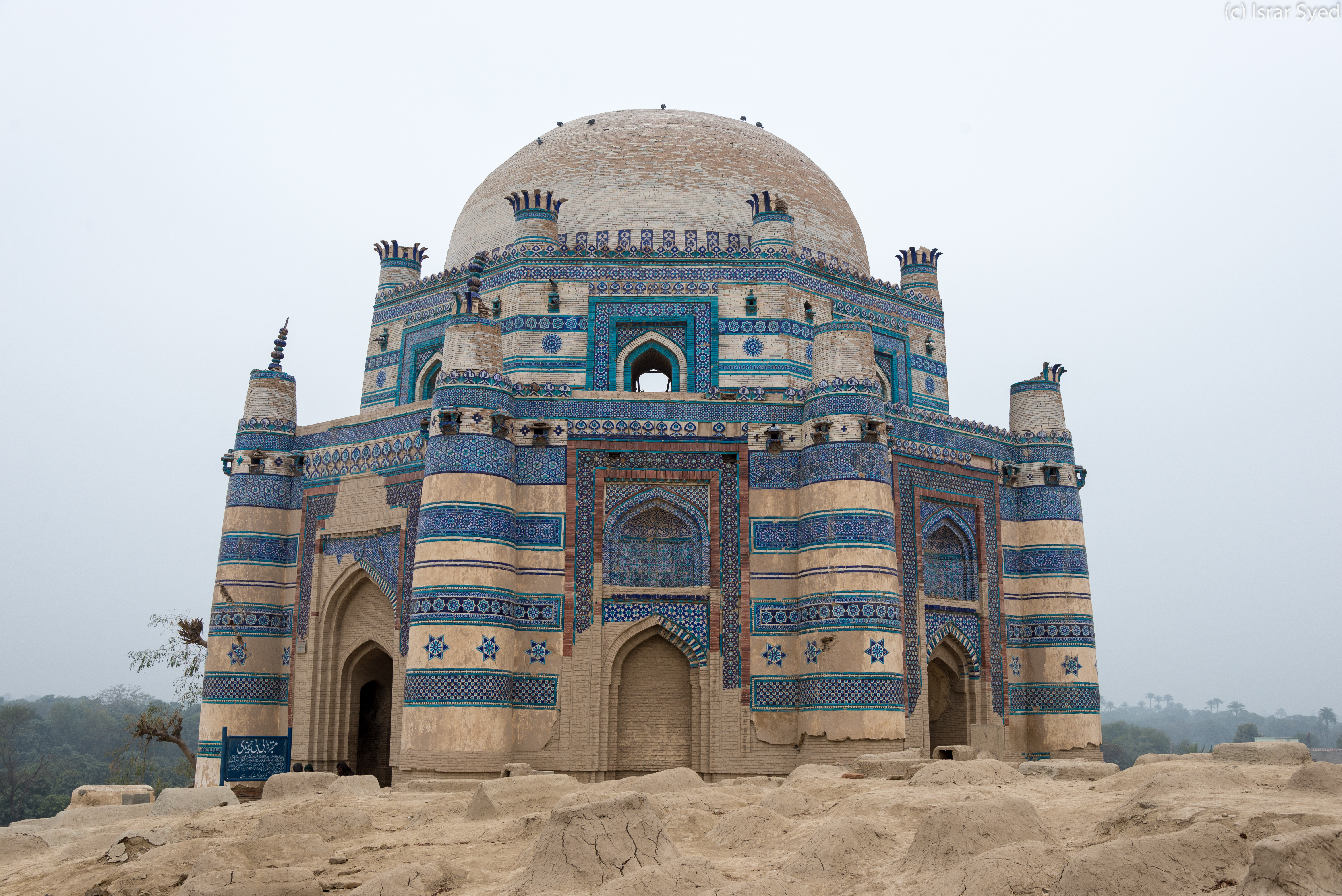 Tomb of Bibi Jawindi This is a photo of a monument in Pakistan identified as the PB-17